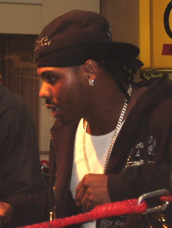 JTG of Cryme Tyme appearing at the Devonshire Mall in Windsor, Ontario as part of the "WrestleMania 23 Fan Axxess Tour" on March 28, 2007.